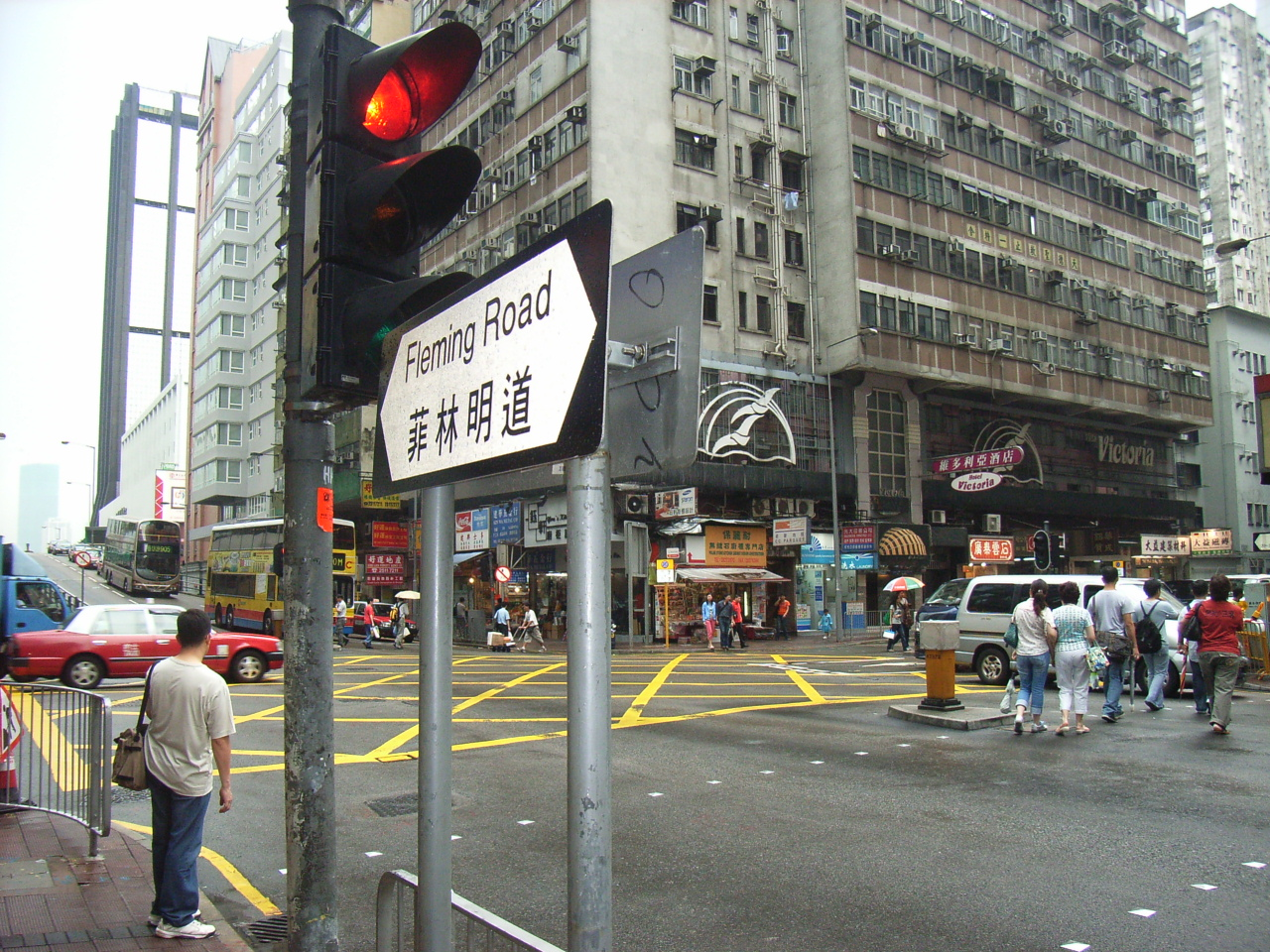 By Jaye Lam, 香港灣仔 菲林明道, Fleming Road, Wan Chai.